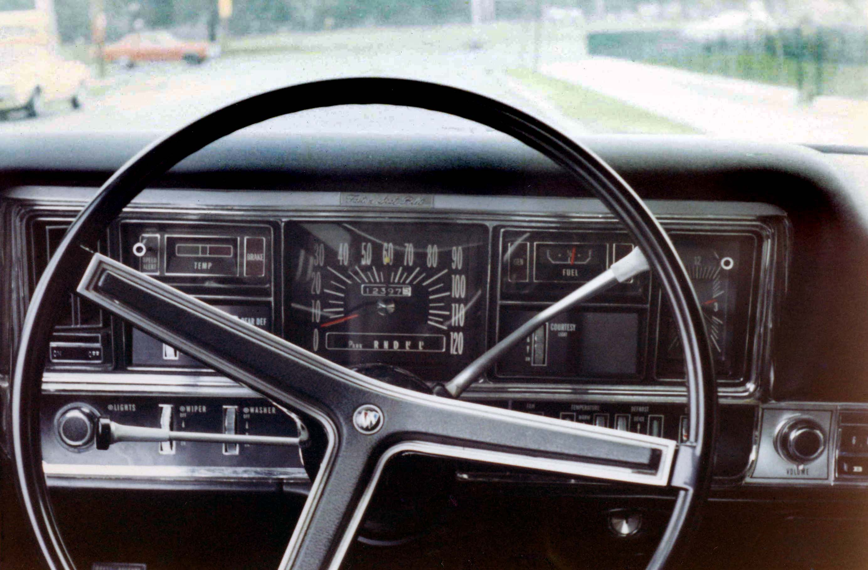 Taken May 1970 in Brooklyn, N.Y.